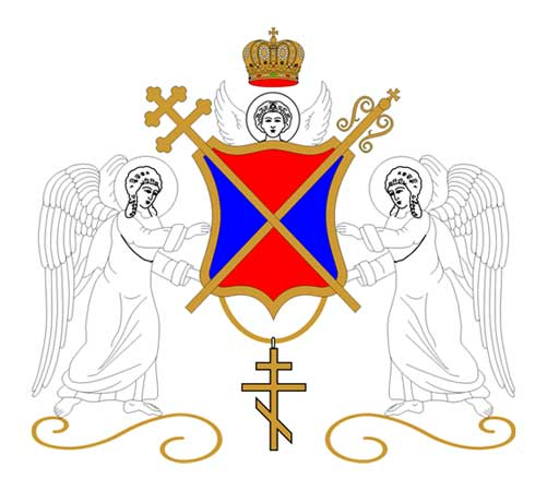 Coat of montenegro Metropolitan